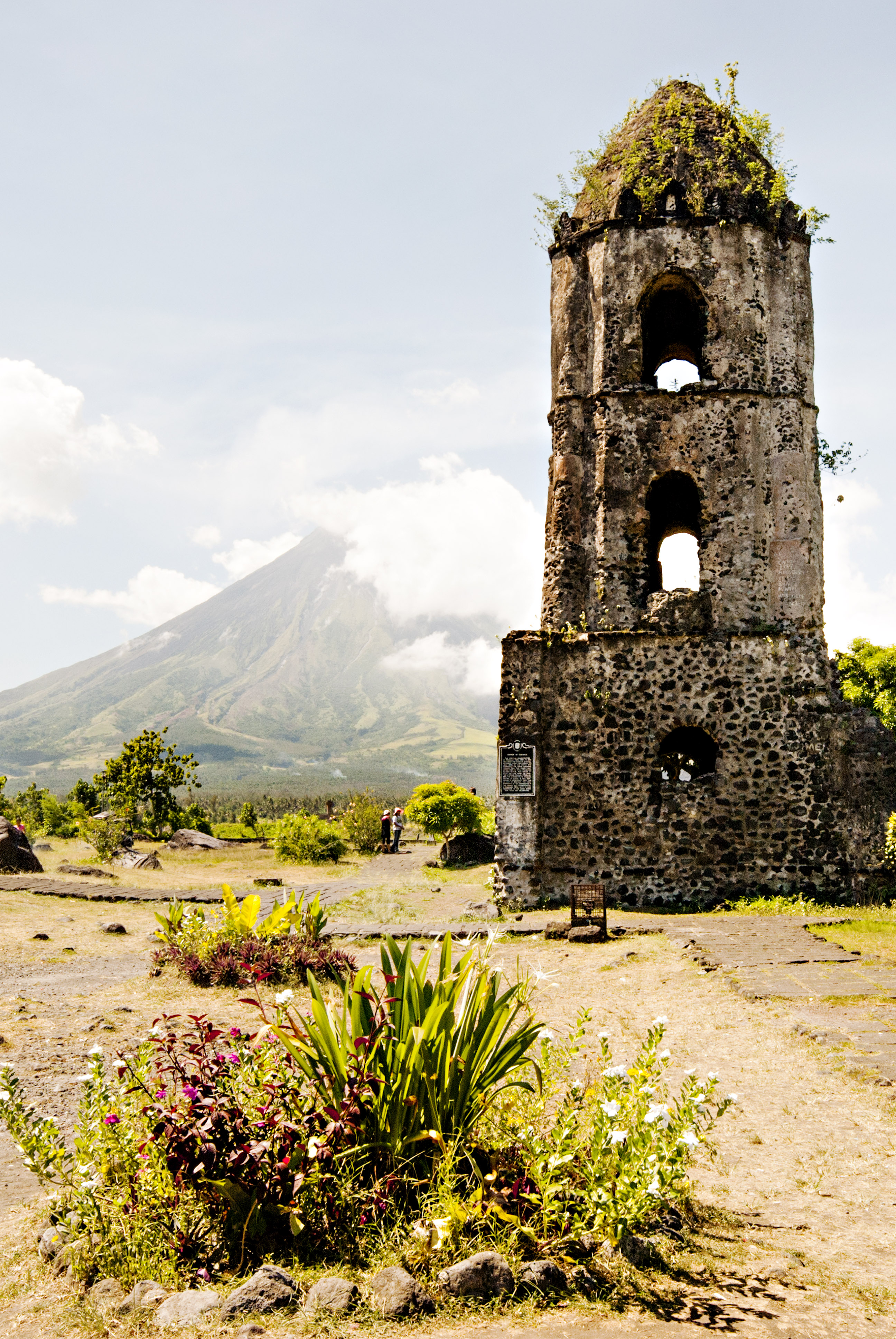 Cagsaua Ruins in Daraga, Albay